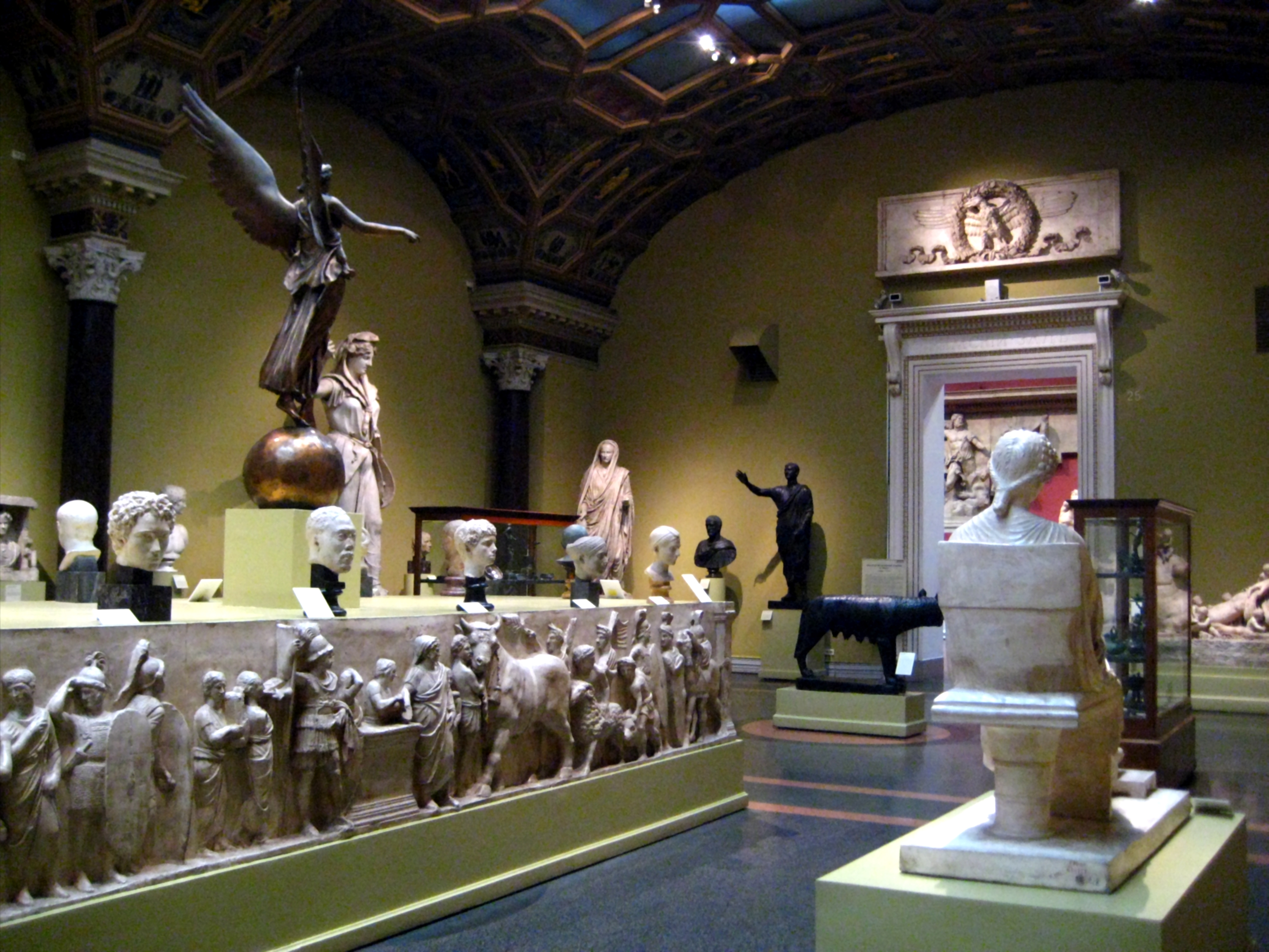 Castings of Ancient Roman statues in the Pushkin Museum